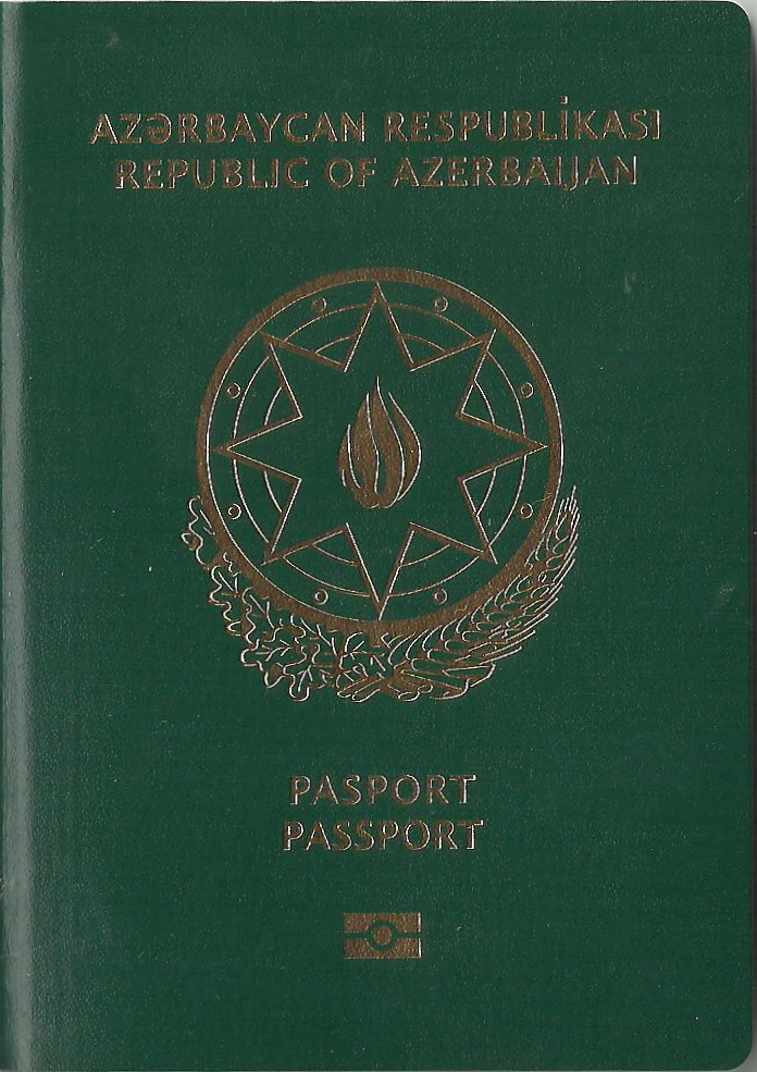 The cover of an Azerbaijani passportAzərbaycanca: Azərbaycan Respublikası vətəndaşının biometrik pasportu